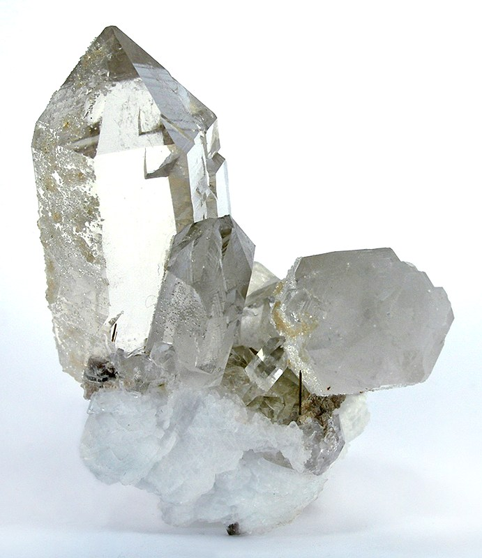 Albite, Quartz Locality: Marilac, Minas Gerais, Southeast Region, Brazil (Locality at ) Size: small cabinet, 8.4 x 6.6 x 5.7 cm Quartz on Albite with Tourmaline An unusual locality piece from this small tourmaline mine, featuring a 7-cm doubly-terminated quartz in a cluster of others, all perched dramatically on a knob of albite crystals. The quartz is GEM, clear and crisp, accented by a sparkling coating of minute secondary crystallization on top of some side faces. the overall effect is really striking. Sold to Hauck by Russ Behnke, for $500 in 1975...it was a premium Brazilian piece then, and I think remains so!